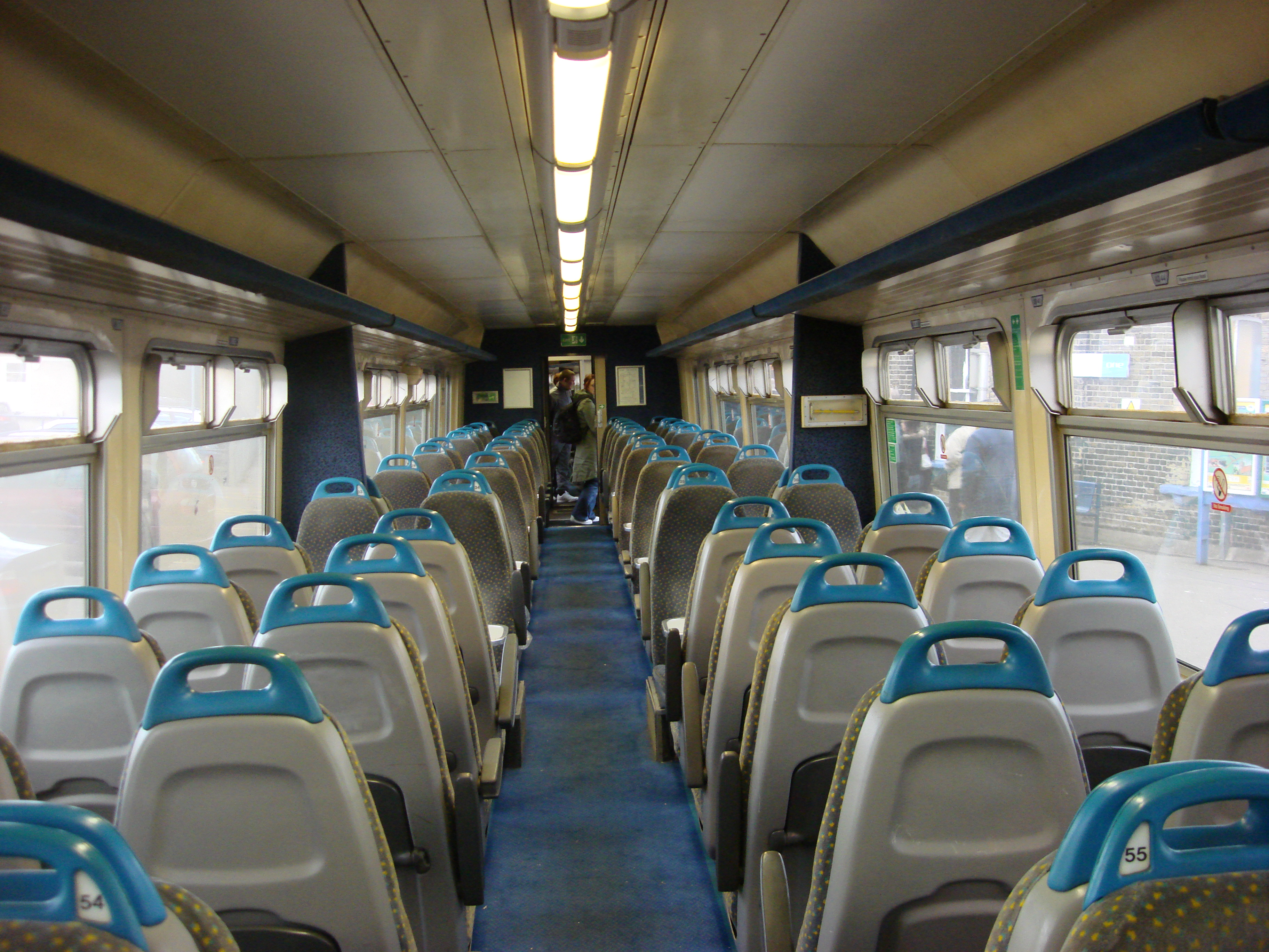 The interior of a One Class 156